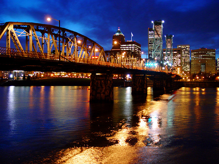 Hawthorne Bridge in Portland, OregonHawthorne at Night